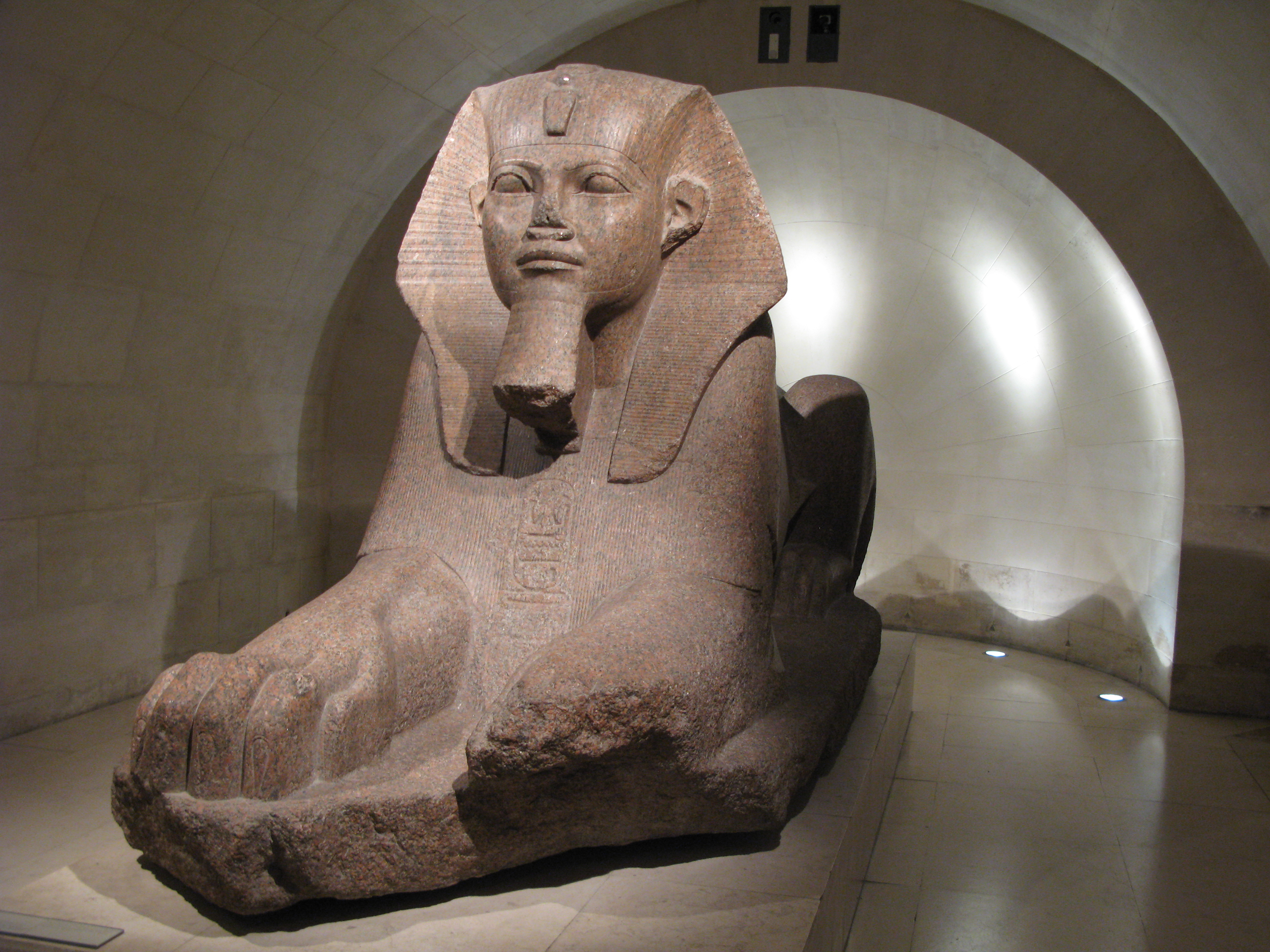 Great sphinx bearing the names of Amenemhat II (12th Dynasty), Merneptah (19th Dynasty) and Shoshenq I (22nd Dynasty).